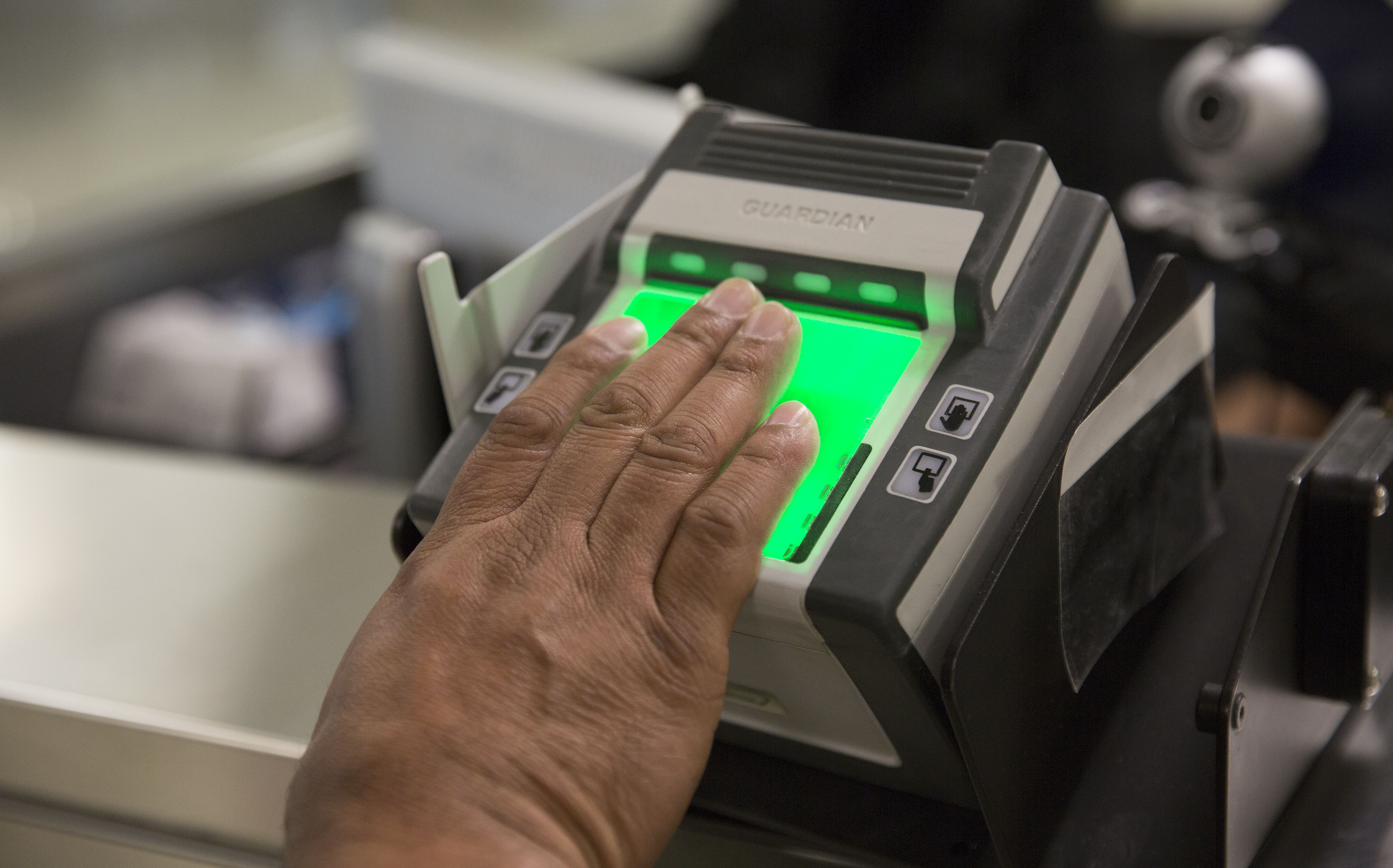 U.S. Customs and Border Protection officers screen international passengers arriving at the Dulles International Airport in Du;lles, Va., November 29, 2016. U.S. Customs and Border Protection Photo by Glenn Fawcett